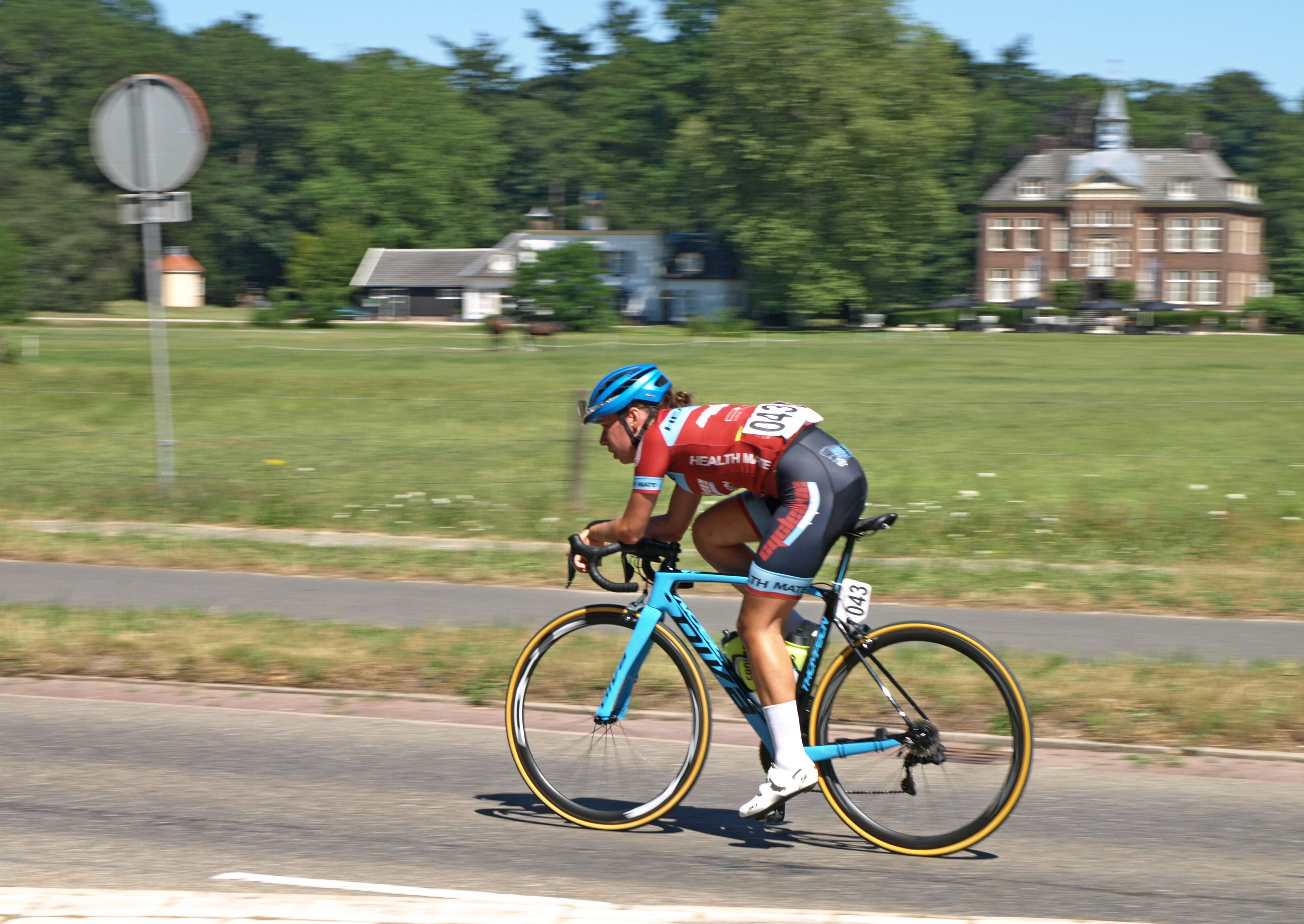 Kirstie van Haaften leads the race when passing Hoekelum castle.